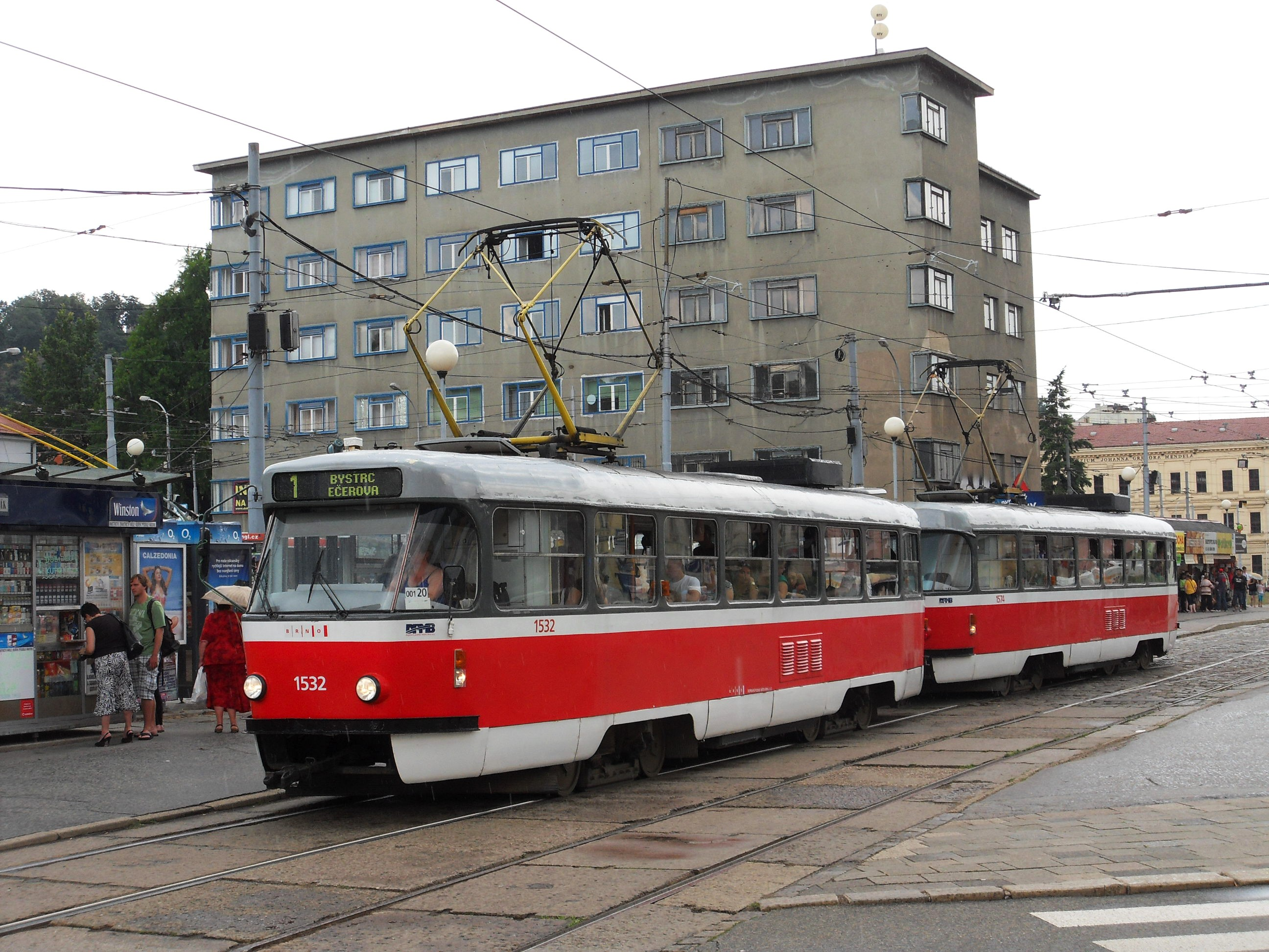 Tatra T3M trams No. 1532+1574 of Dopravní podnik města Brna, Brno, Czech Republic